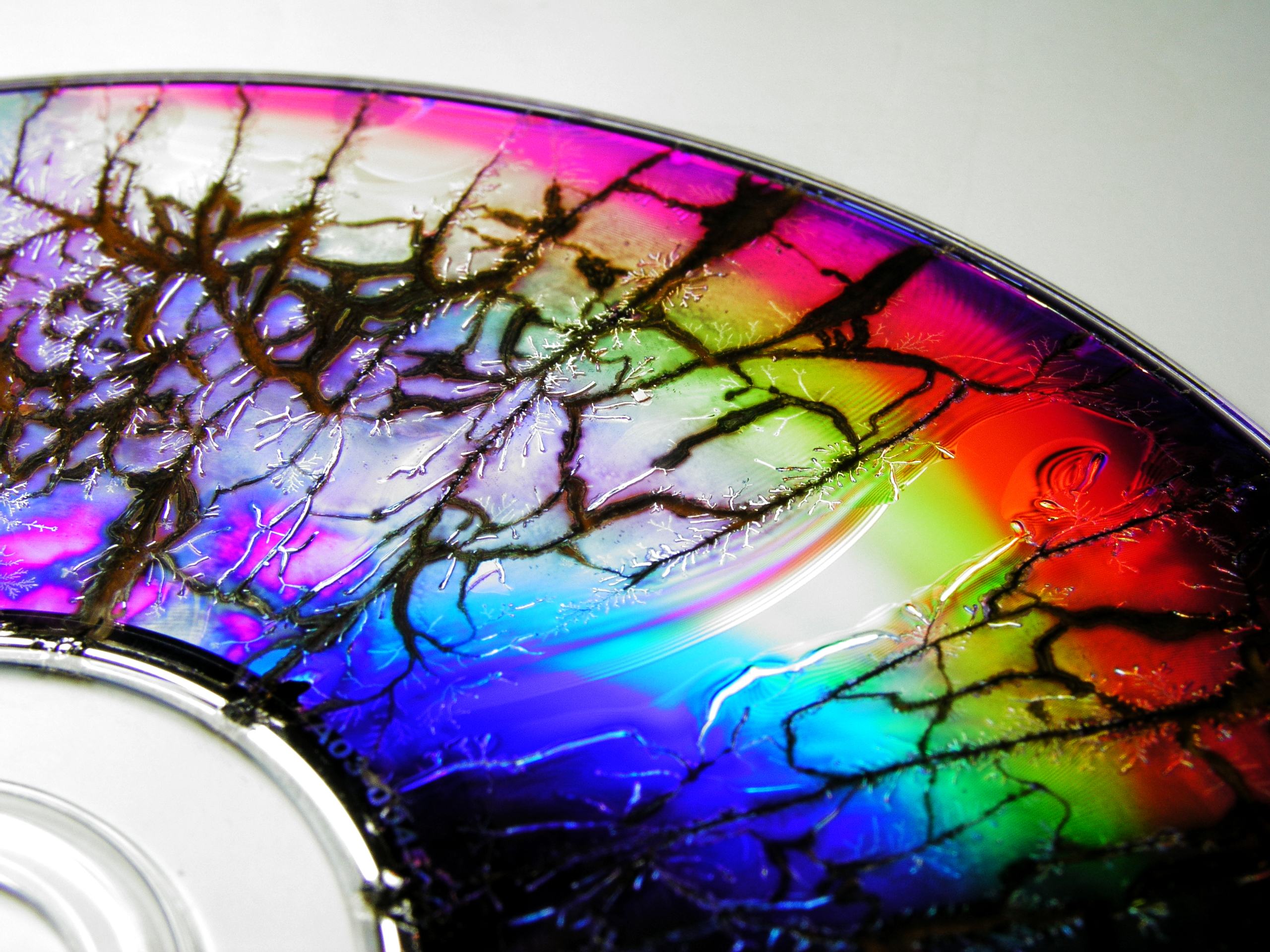 A picture of a microwaved maxwell DVD-R that looks pretty awesome.